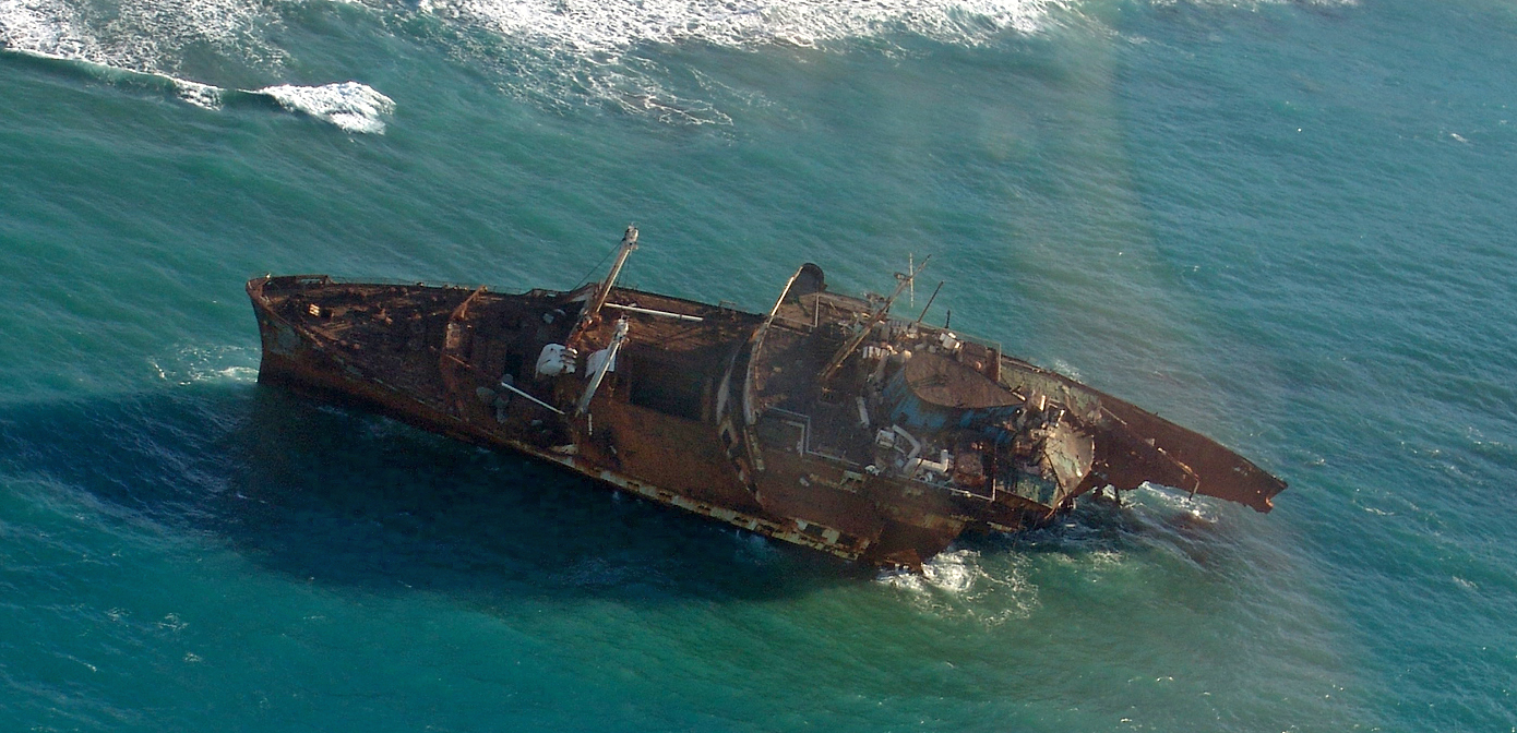 the wreck of the American Star (SS America) on 2005-12-14 after the collapse of the sun deck and the loss of the chimney. aerial photo from sea side.